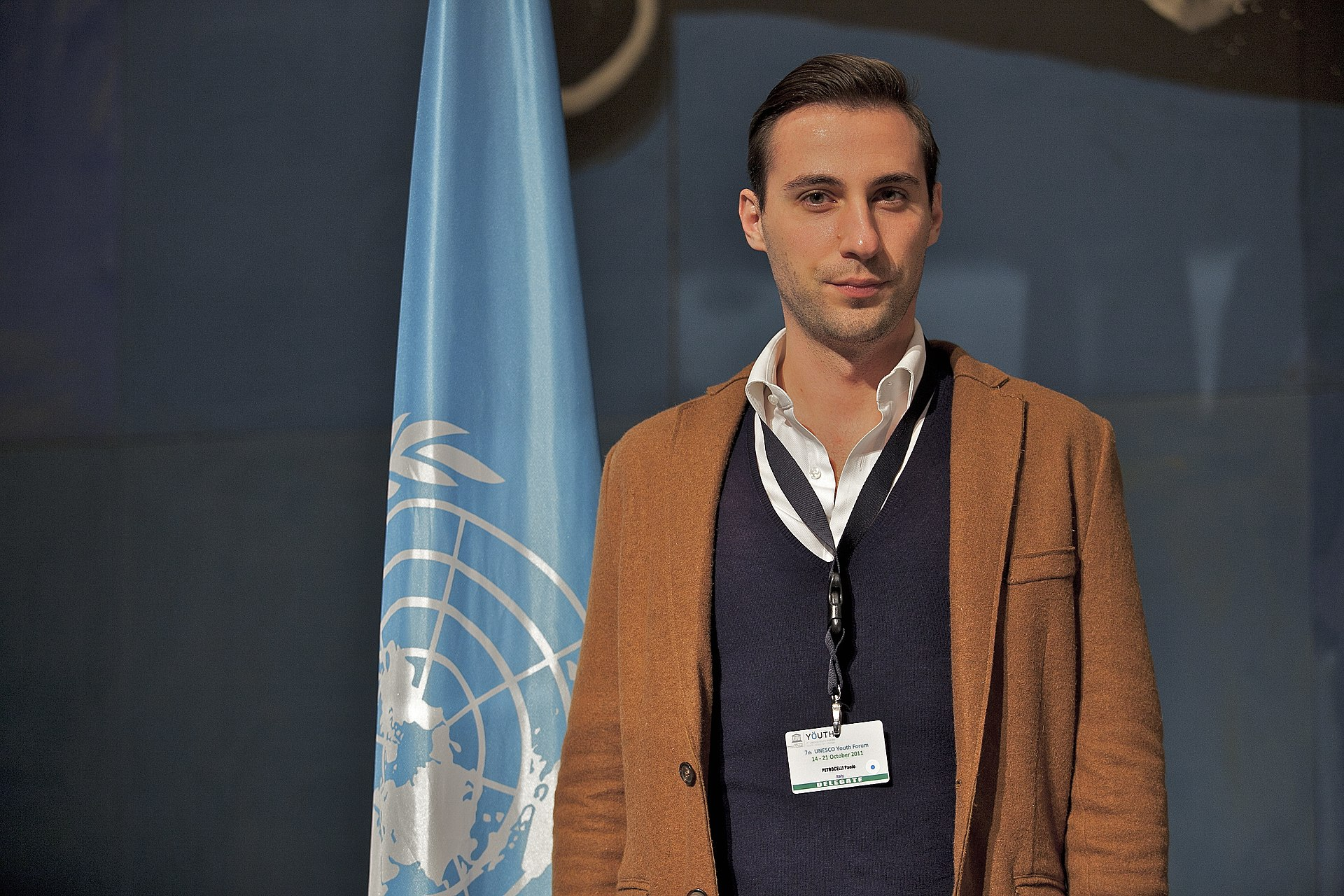 PAOLO PETROCELLI